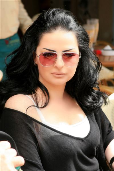 Diana Karazon in March 13, 2009